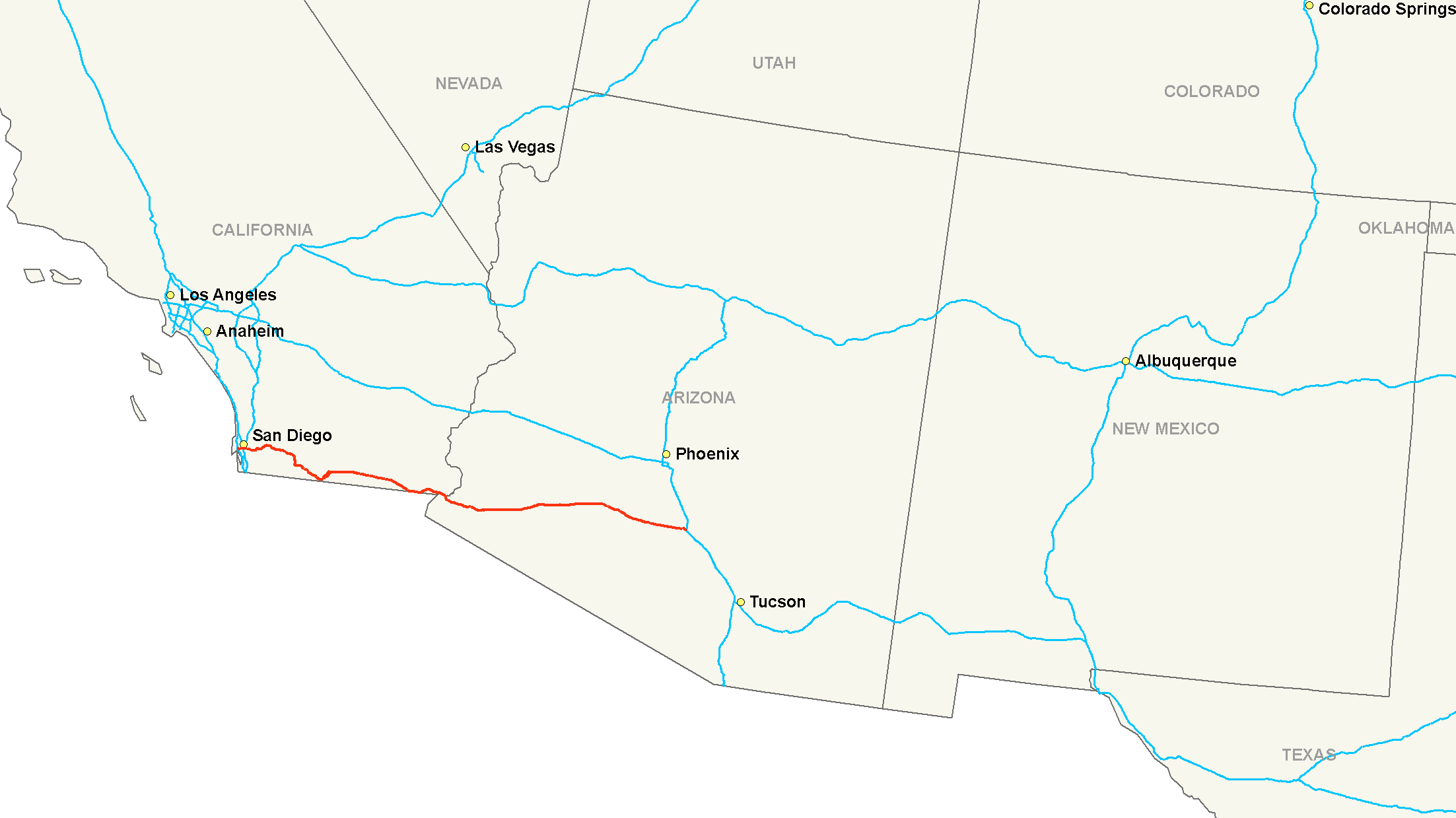 Map of Interstate 8